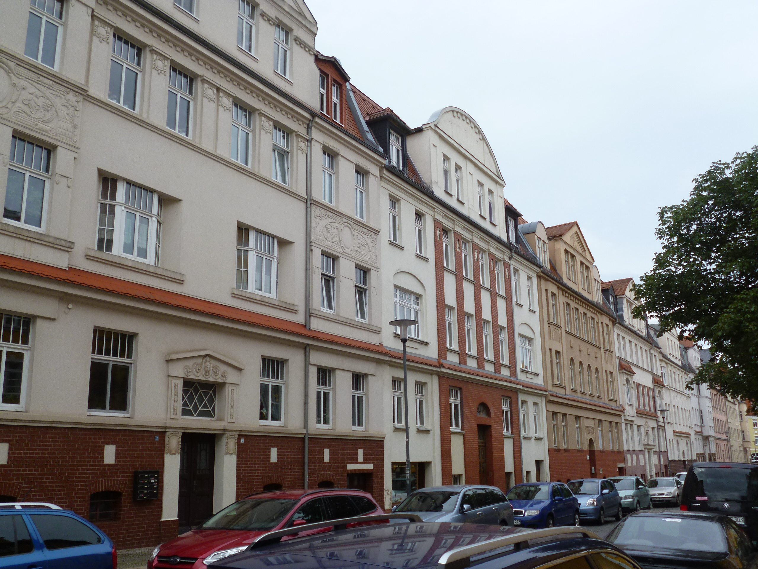 Row of houses Ernst-Eckstein-Strasse No. 12-20, Halle (Saale), view to the Beesener Strasse